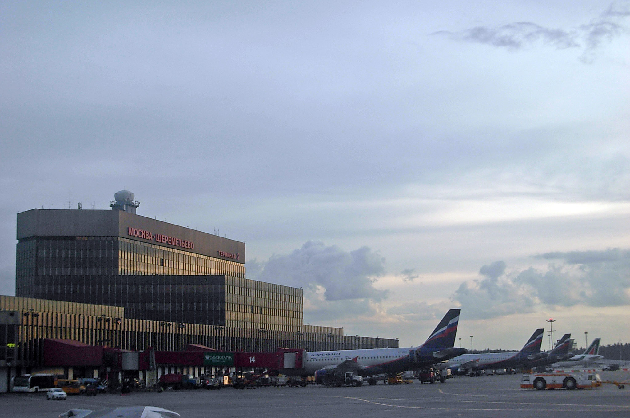 Sheremetevo-2 terminal, Moscow